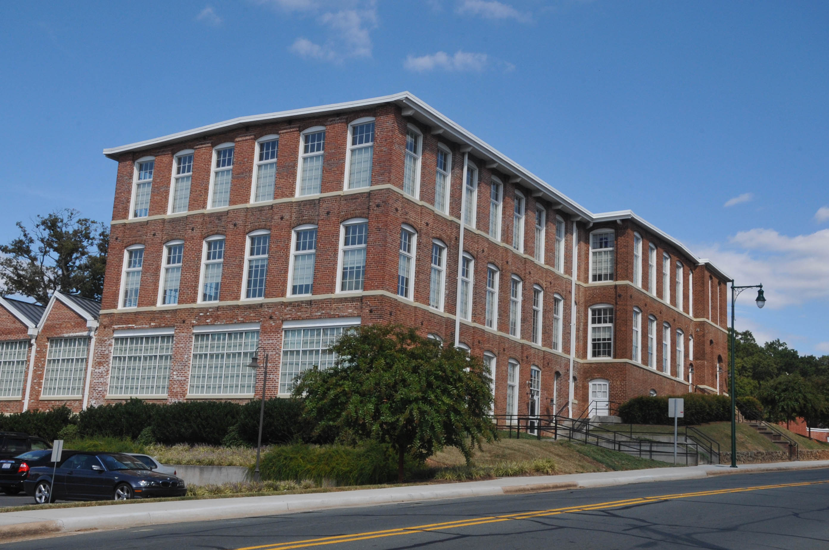 LILLIAN KNITTING MILLS; 1905 TO LATE 1940’S; STARTED BY A.L. PATTERSON AND NAMED FOR HIS WIFE; STANLEY COUNTY’S BEST PRESERVED EXAMPLE OF A TEXTILE MILL WHICH OPERATED UNDER VARIOUS OWNERSHIPS UNTIL 1994 AS NC KNITS